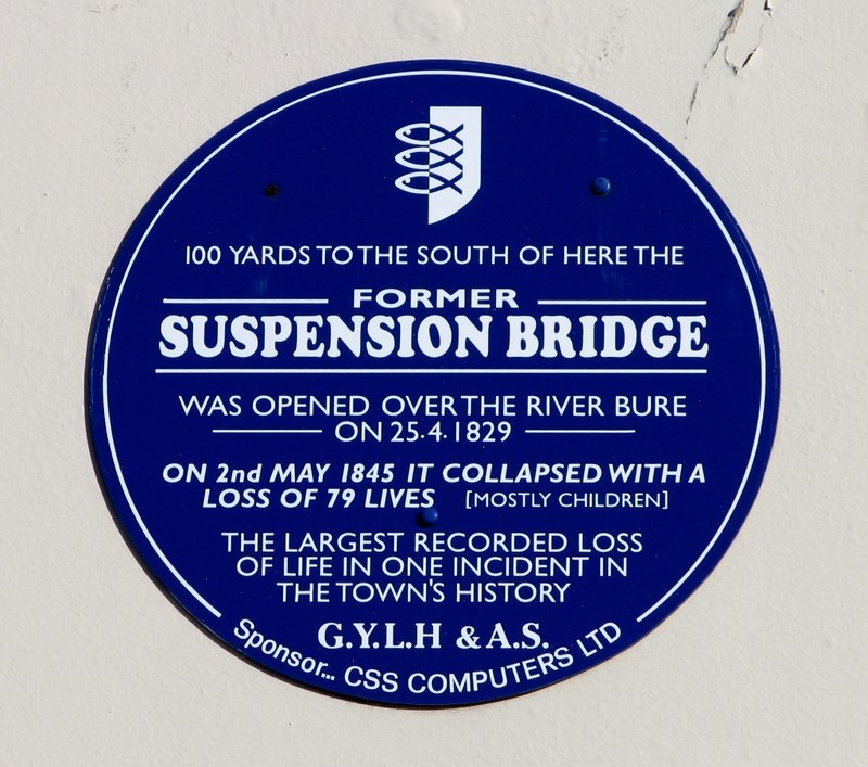 Plaque commemorating the Suspension Bridge disaster